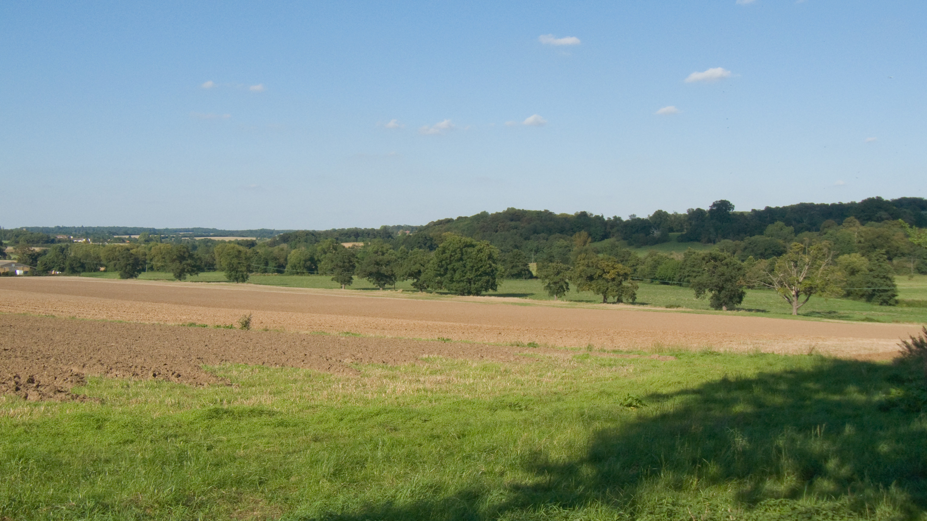 River Rib Valley, near Bengeo - in Hertfordshire. by Jamsta